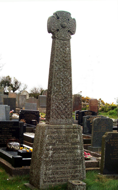 Memorial to Edgar Phillips at Rehoboth Edgar Phillips whose Welsh bardic name was 'Trefin'